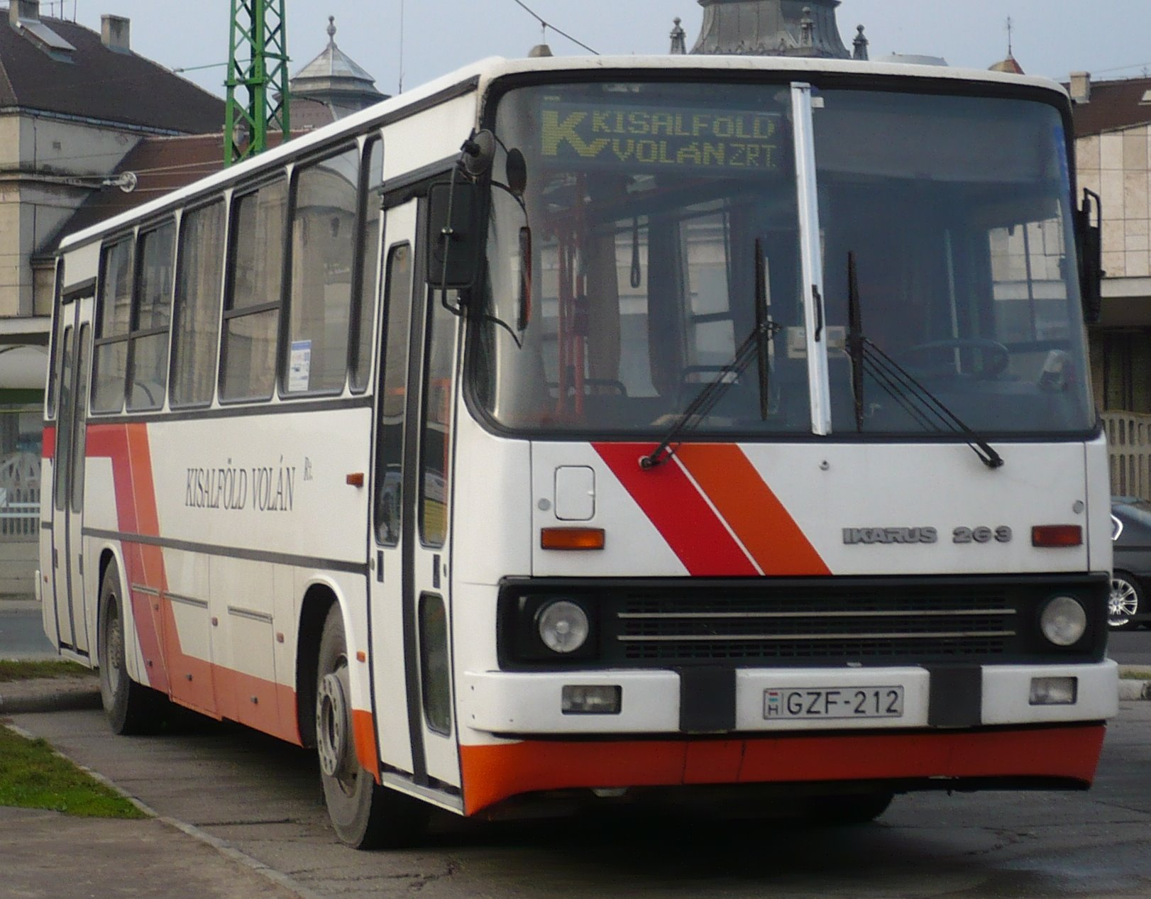 Ikarus 263 bus in Győr.